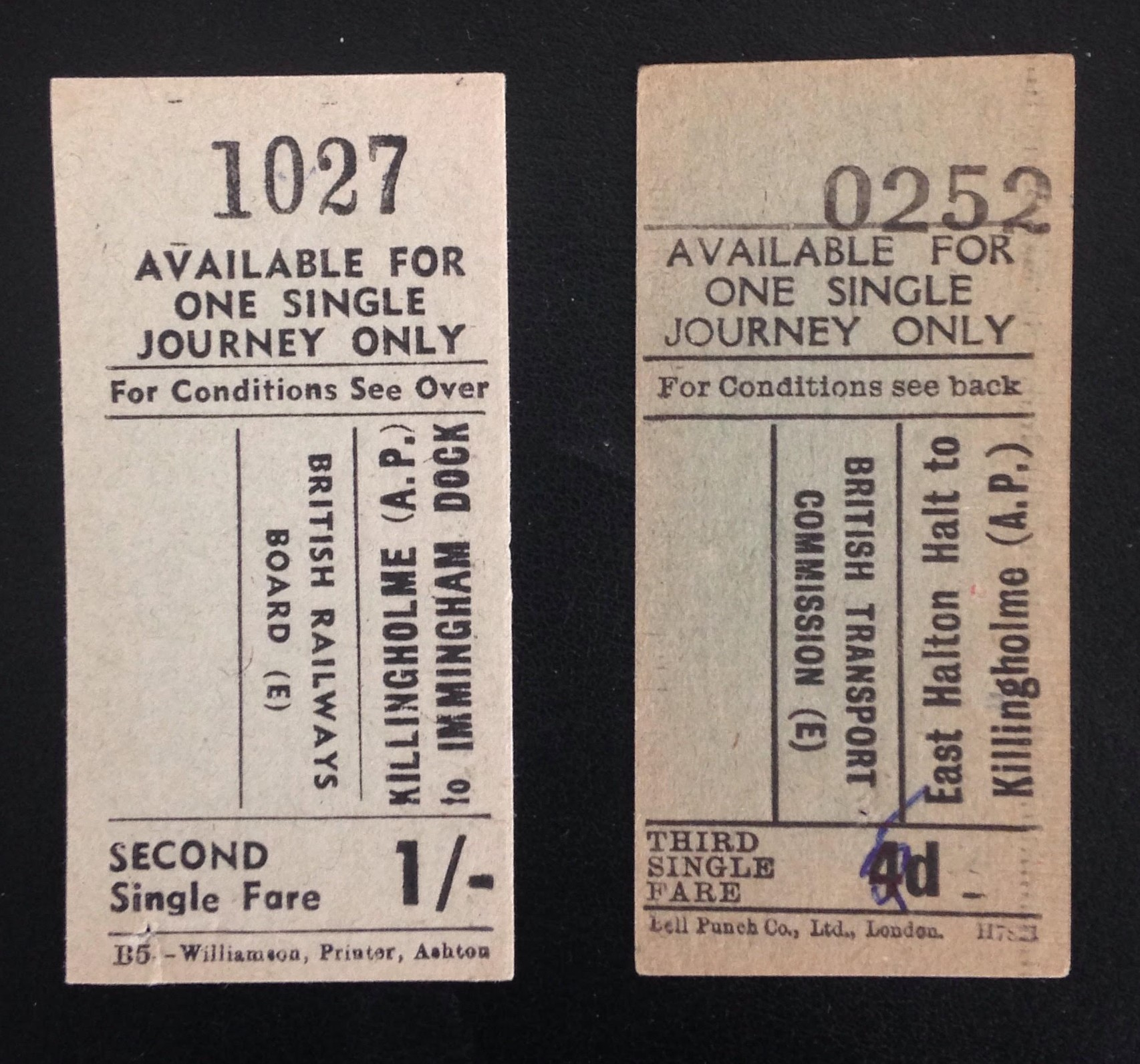 Examples of tickets to and from the station issued on the train